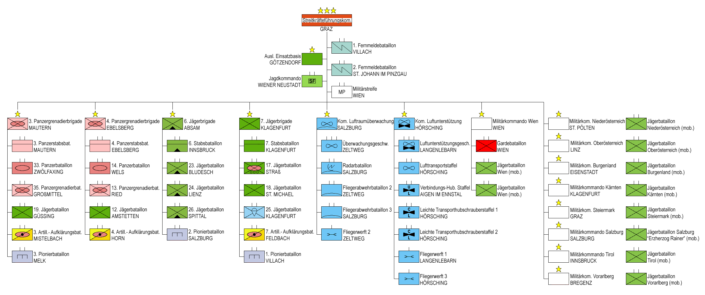 Structure of the Austrian Army- German version